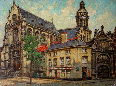 Painting by Adolf Croes (1898-1979) of the St. Paul's Church in Antwerp (Belgium), painted from the "Veemartk"